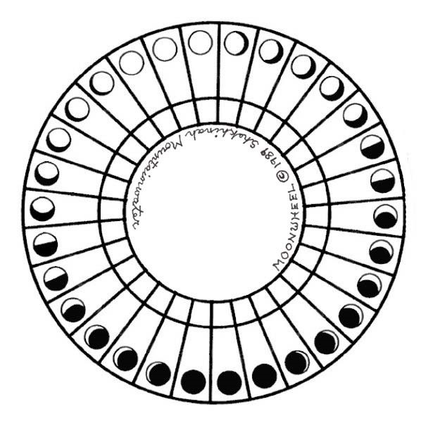 Moonwheel by Shekhinah Mountainwater 1989 - based on Shekhinah's system of Tree Moons